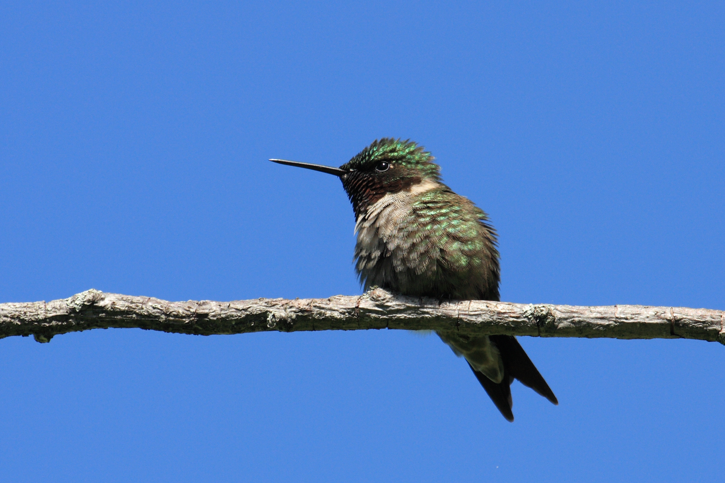 Ruby-throated Hummingbird (Archilochus colubris), male, Cap Tourmente National Wildlife Area, Quebec, Canada.